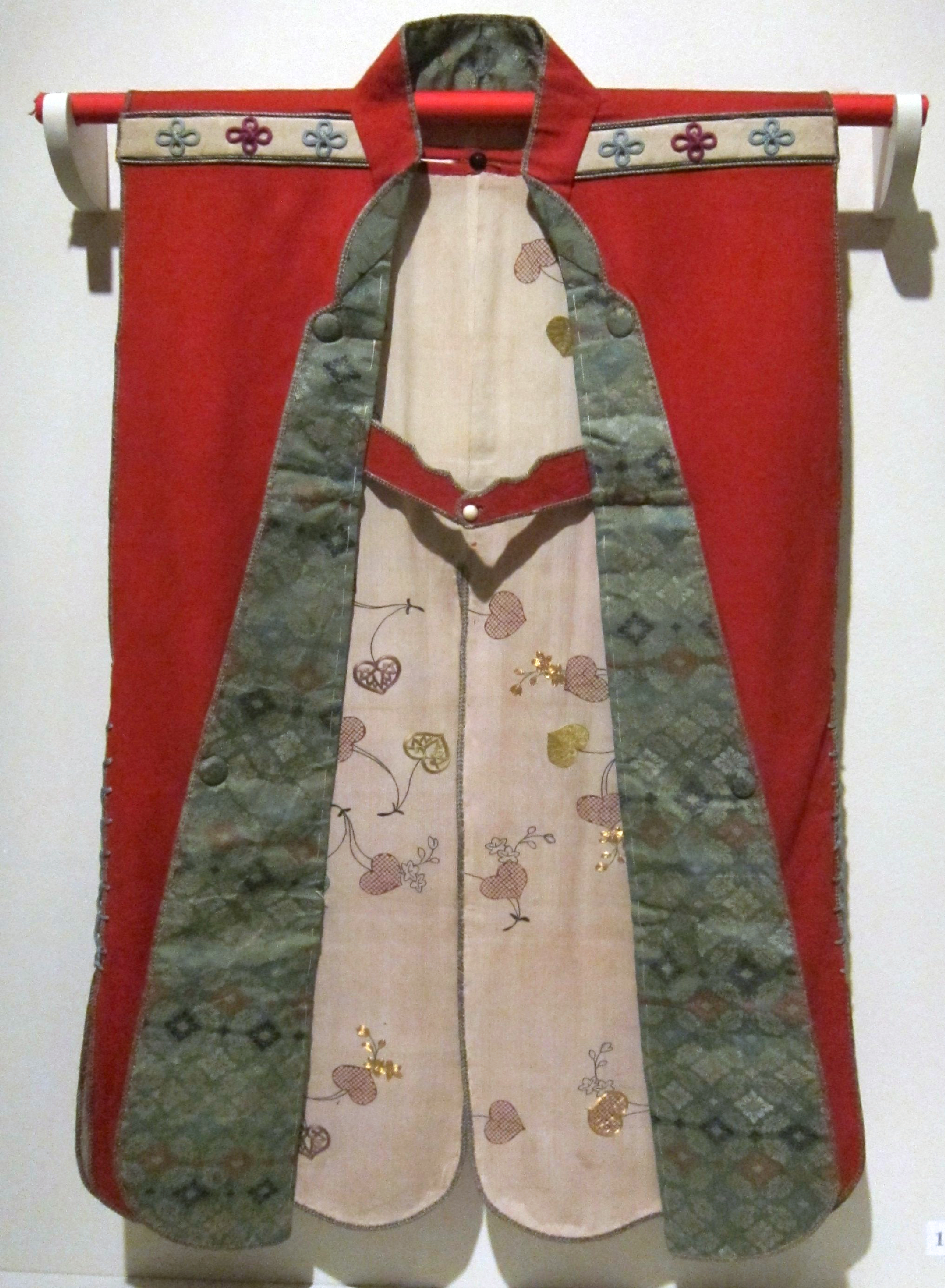 Red surcoat (jinbaori) with floral design, late 19th century, Japan, Clark Center